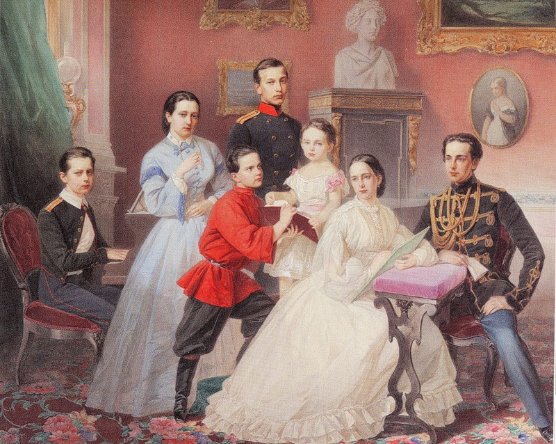 Grand Duchess Maria Nikolaevna of Russia with her four older children.